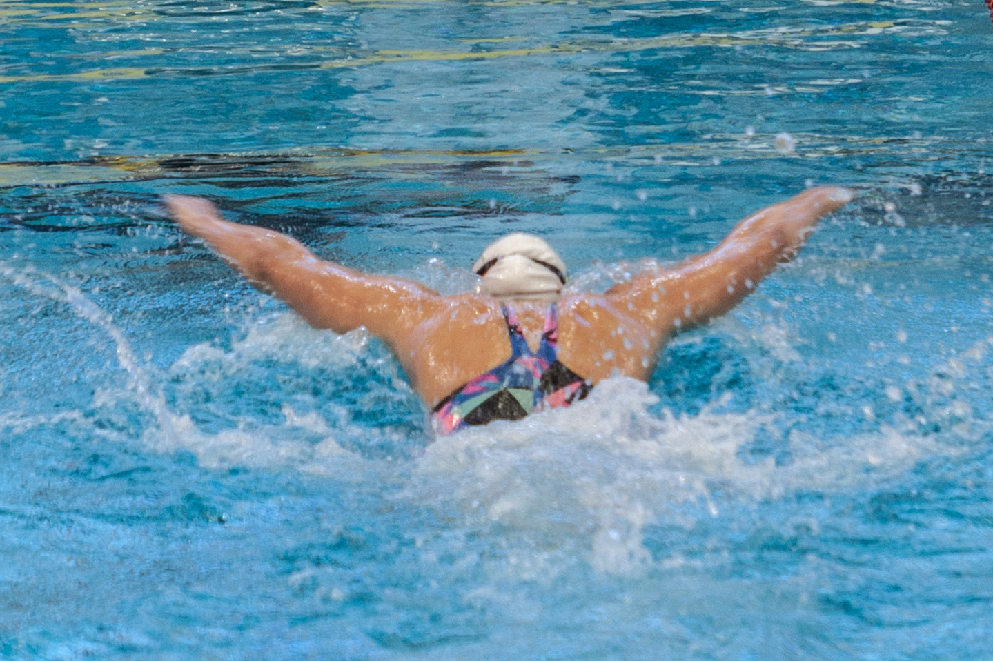 Swimmer Lara Grangeon at the 2015 European Short Course Swimming Championships in Netanya